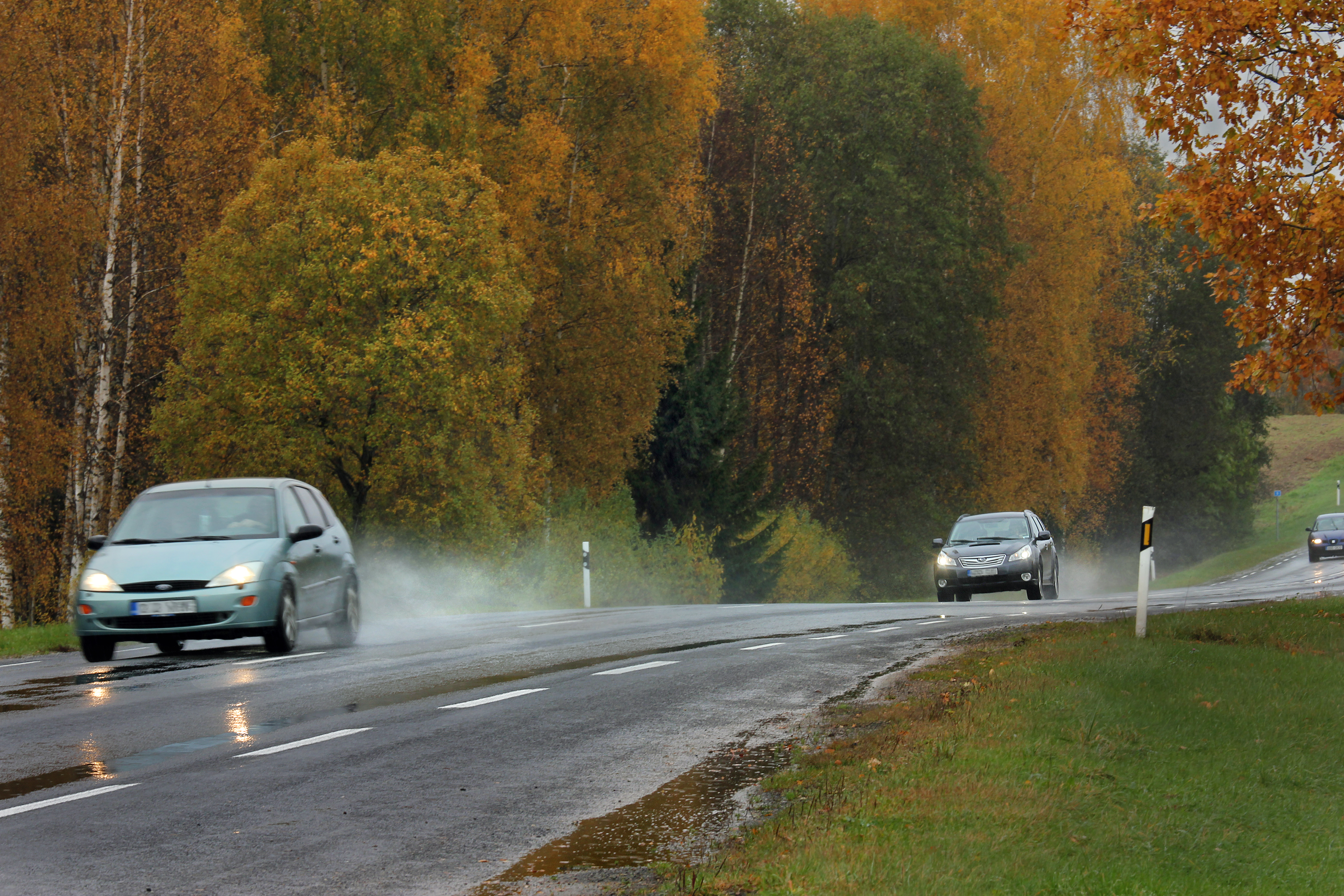 Cars on the roads of Estonia